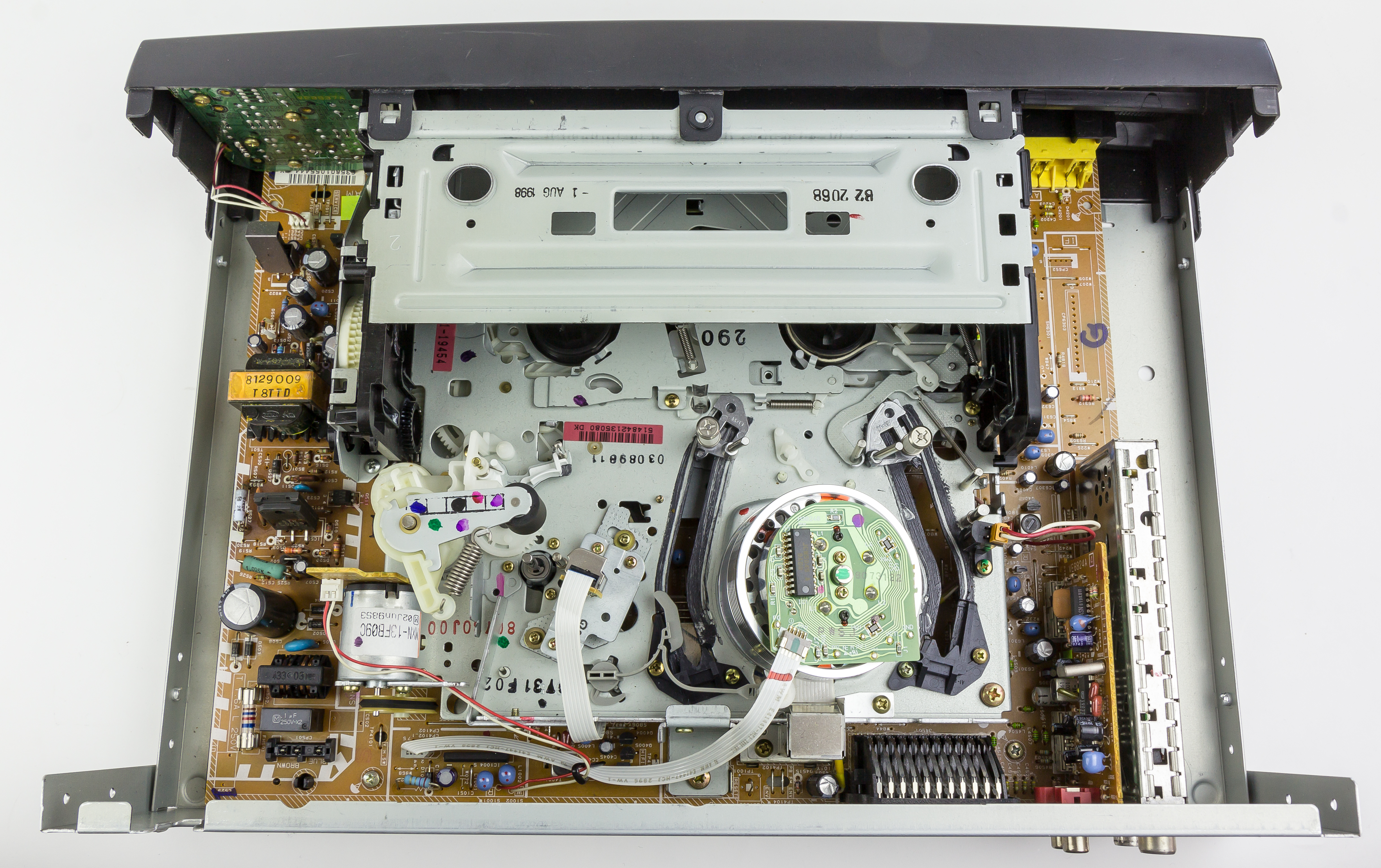 Medion MD8910 - case removed